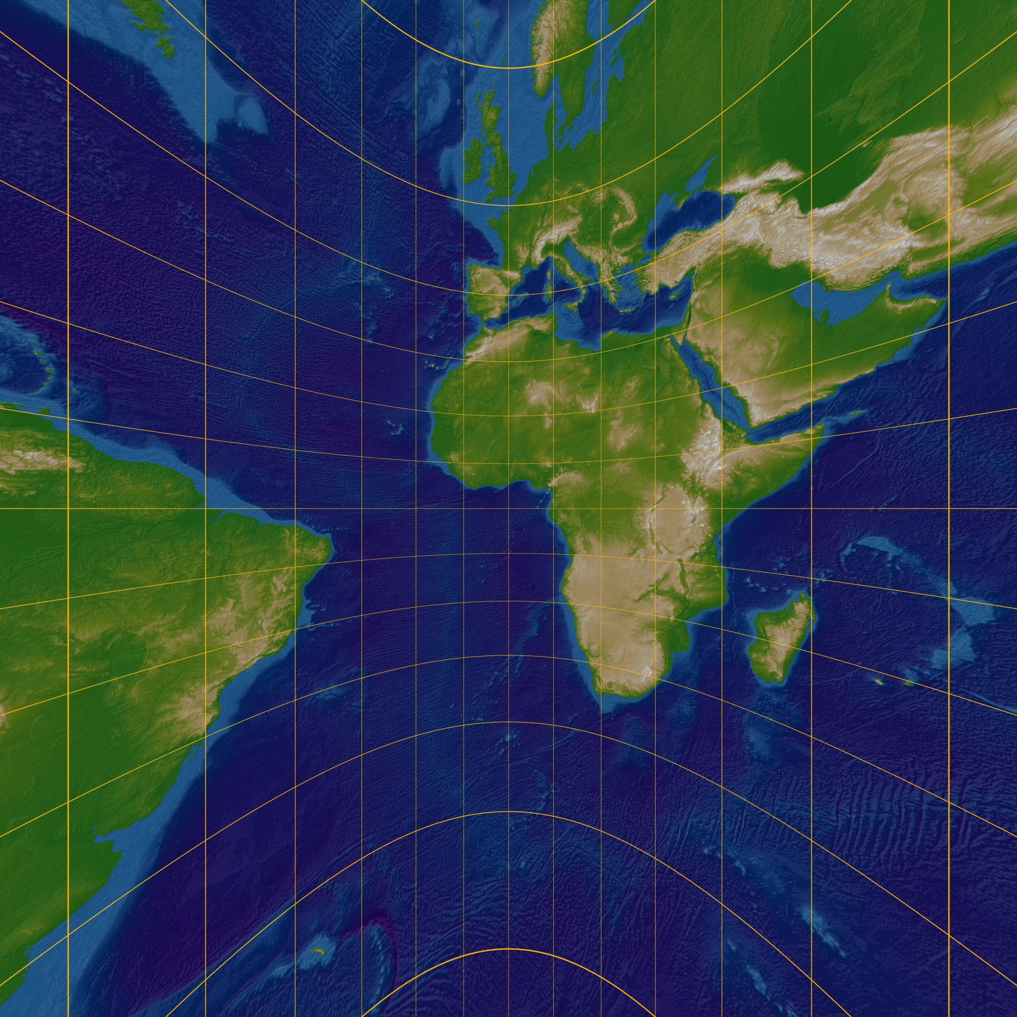 Transversal gnomonic projection. Map center is at 0° E, 0° N.